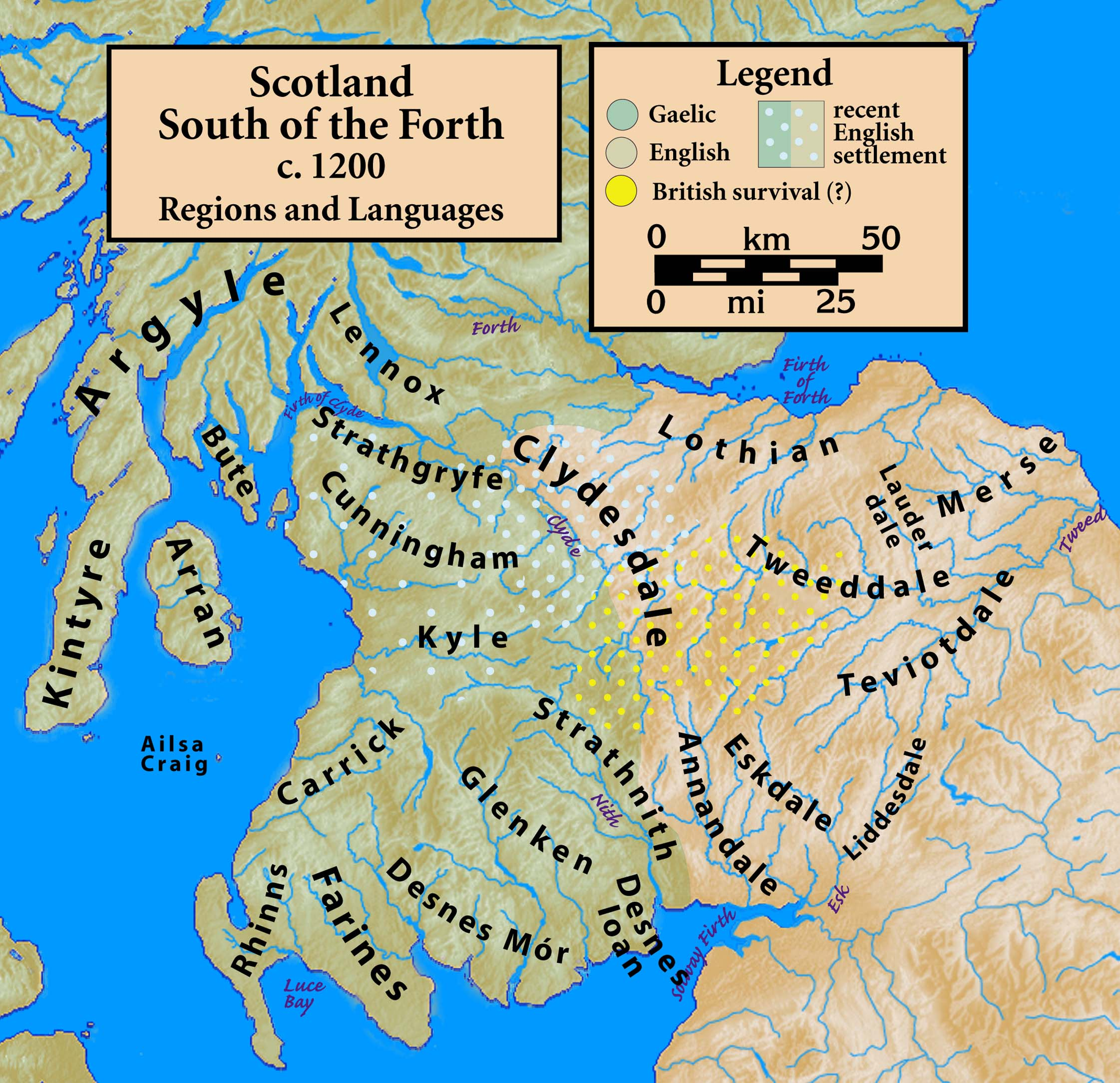 Scotland South of the Forthc. 1200Regions and Languages(topographic map)